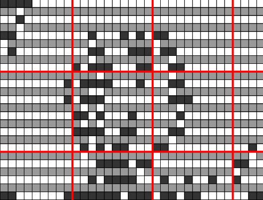 Detail of eye from Marilyn Monroe chart. Designed by Steve Plummer 2010